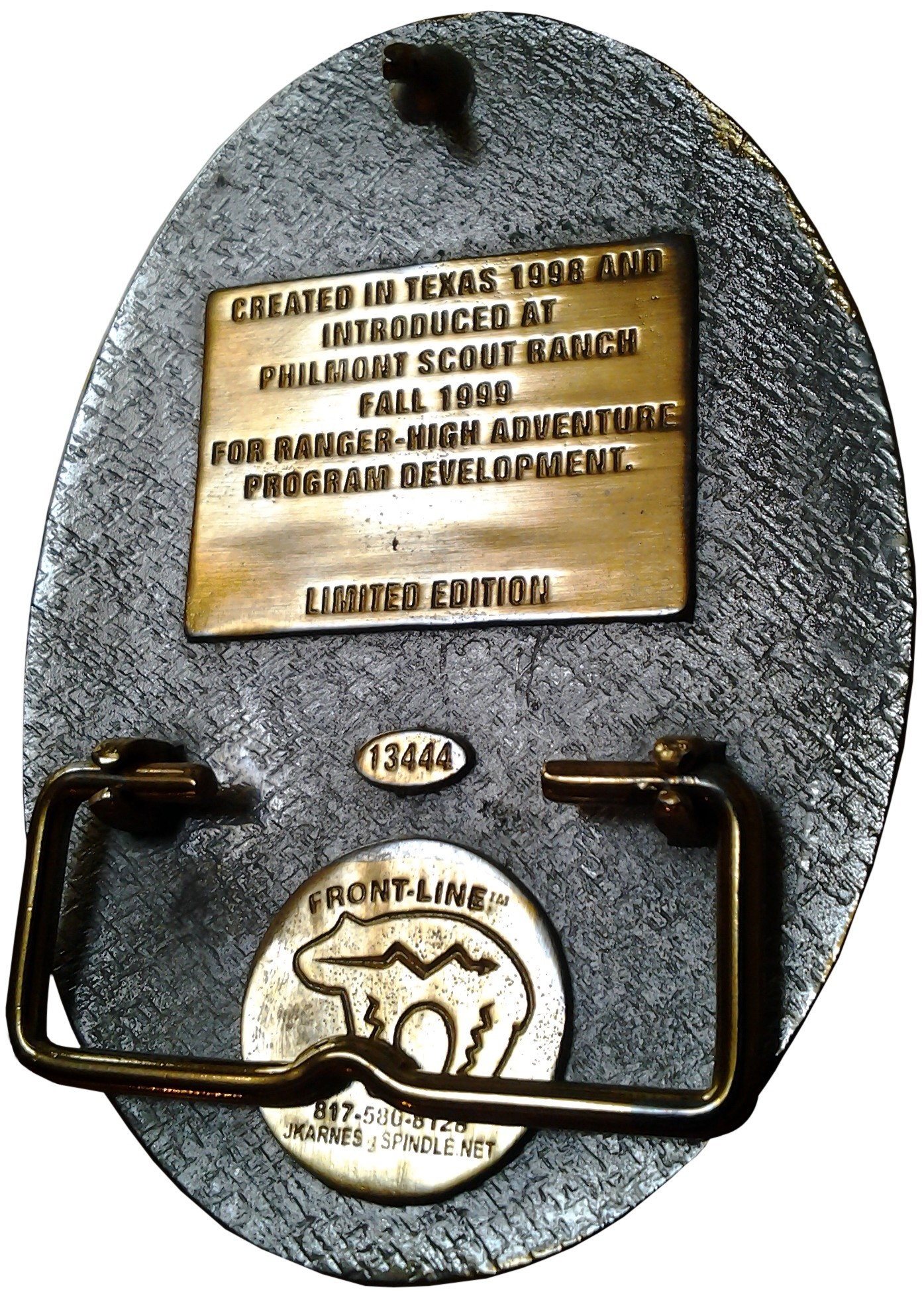 The back of the Texas Powder Horn belt buckle reads: "CREATED IN TEXAS 1998 AND INTRODUCED AT PHILMONT SCOUT RANCH FALL 1999 FOR RANGER - HIGH ADVENTURE PROGRAM DEVELOPMENT."